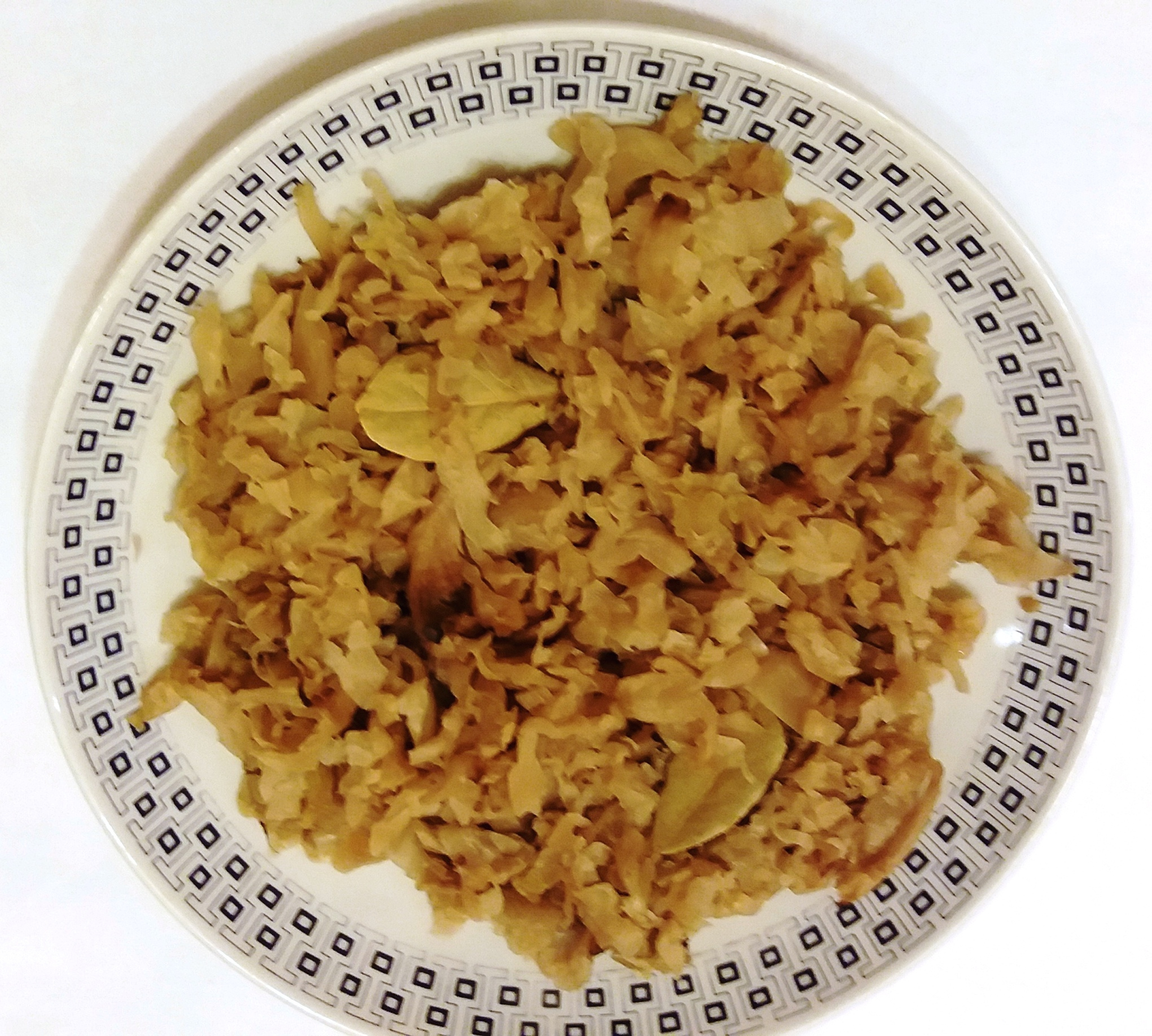 Podvarak - serbian national dish